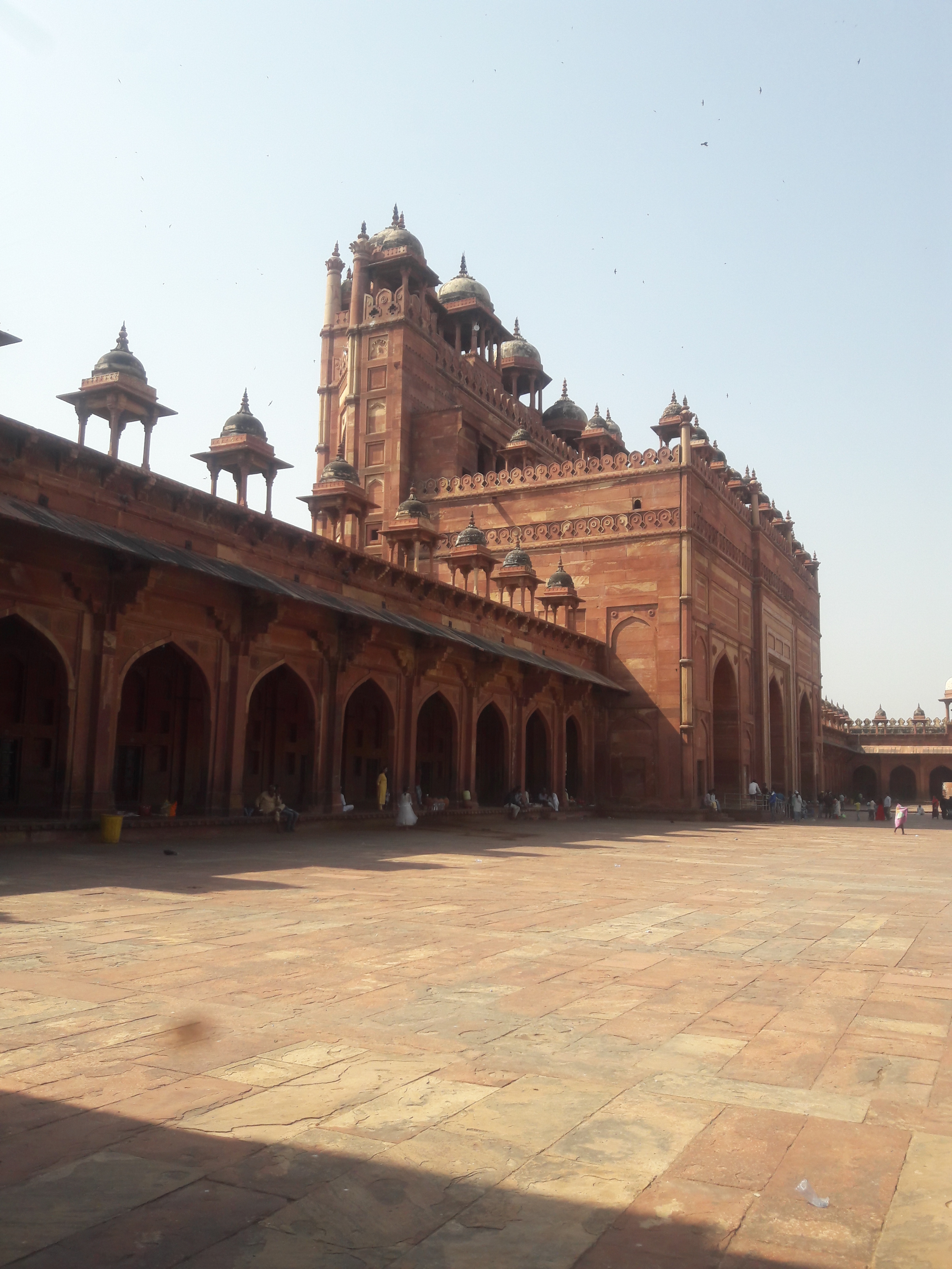 Buland Darwaza or the Gate of Victory was built in 1601 AD by Akbar.It is one of the entrances to the palace Fatehpur Sikri.